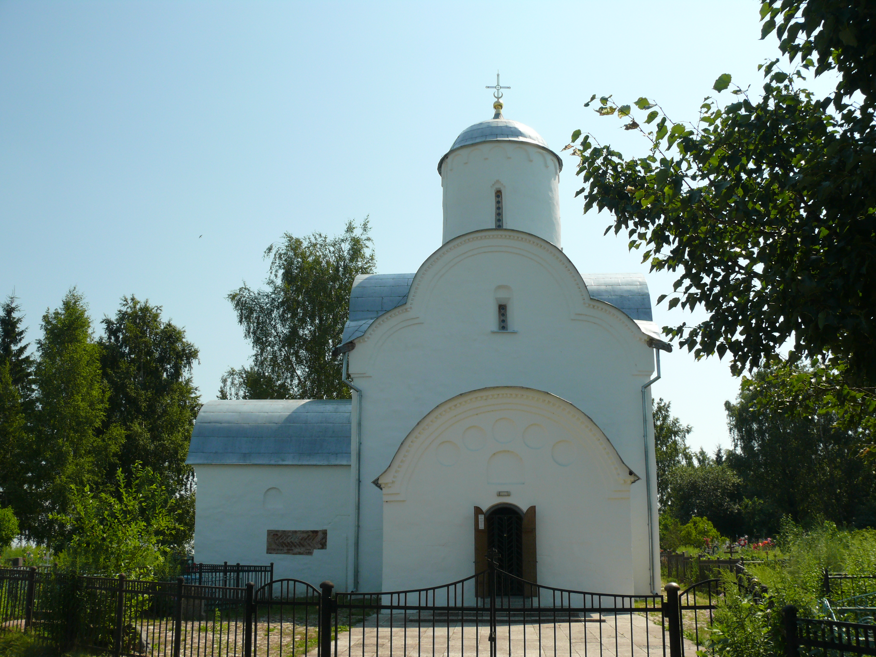 Uspenia church in Volotovo village. Novgorodsky district of Novgorod oblast, Russia